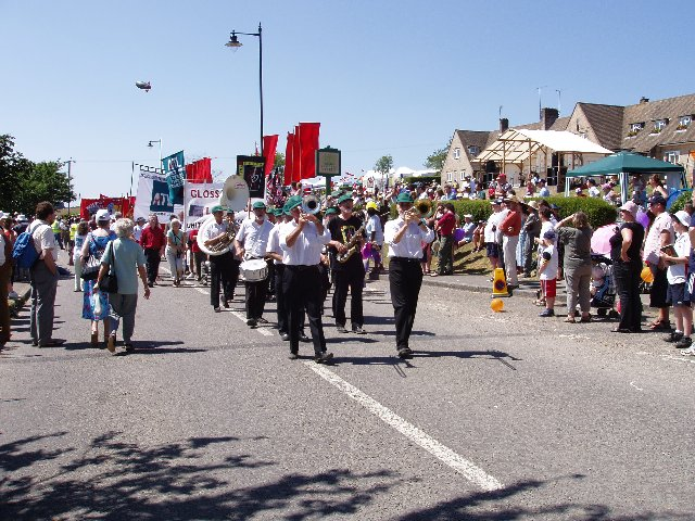 Tolpuddle Martyrs Day 2005 The TUC's annual celebration of the Tolpuddle Martyrs includes a procession (seen here) and speeches & songs outside the Museum. Dorset, UK.